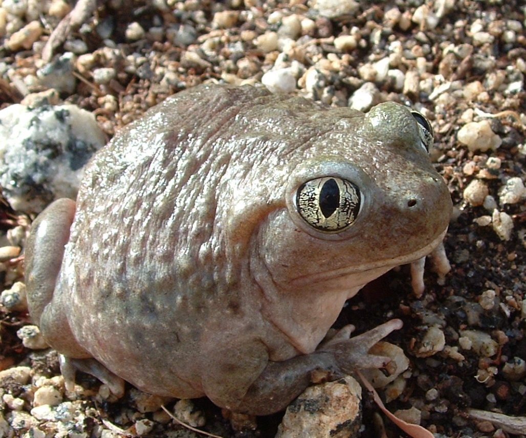 Western spadefoot toad (Spea hammondii) - Lakeview Mountains, California, elevation 1800 ft., 19 Oct 2004. Found alive and healthy in a swimming pool. Photo taken with Fujifilm FinePix S3000. Photographer: Takwish